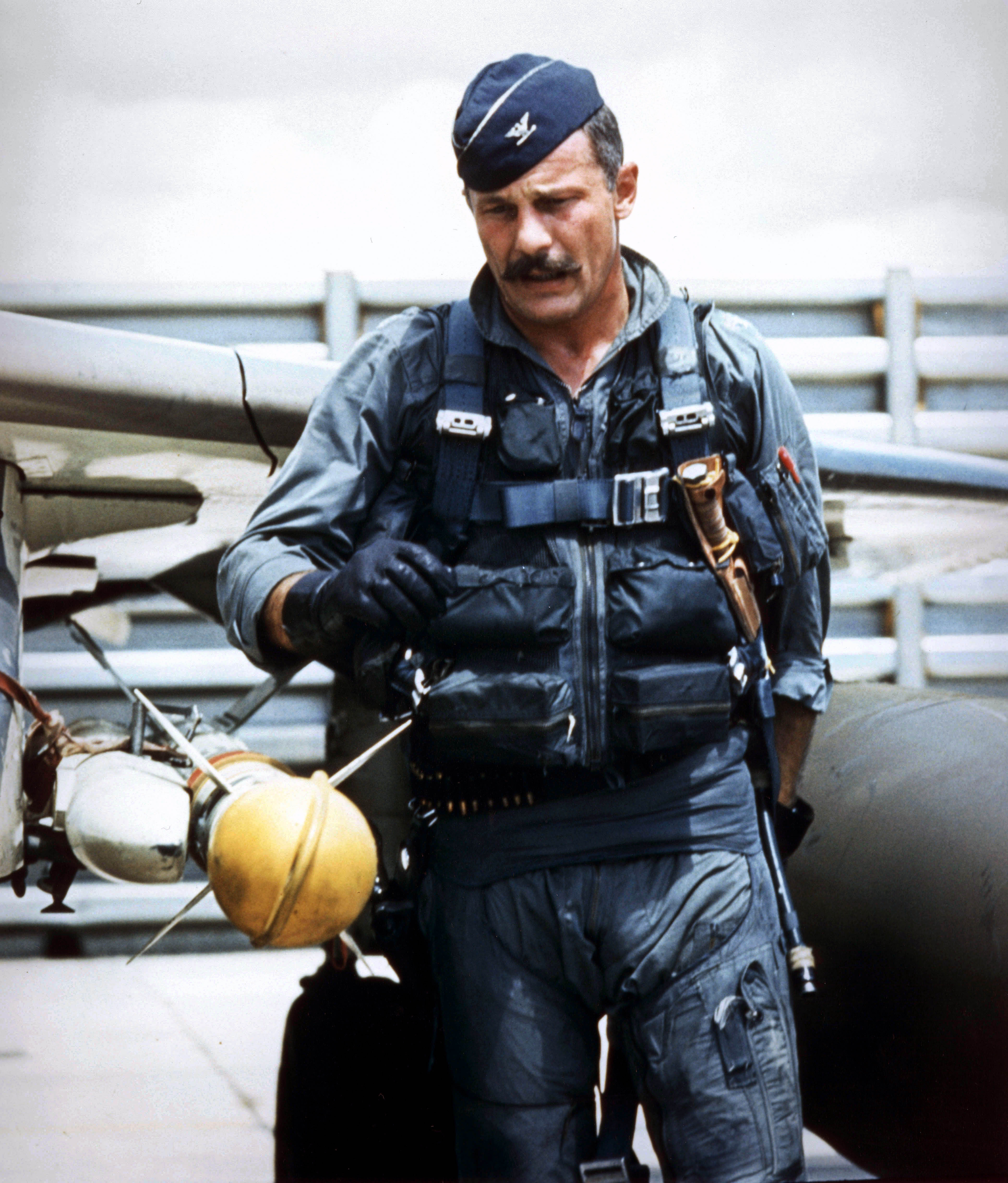 COL Robin Olds preflights his F-4C Phantom before a combat mission in Southeast Asia, circa Sept 1967, while serving as the Commander of the 8th Tactical Fighter Wing at Ubon Air Base, Thailand. COL Olds wears USAF flight gear typical of the 1967 timeframe, to include: K-2B Flight Suit, CSU-3/P Anti-G Suit, SRU-21/P Survival Vest, PCU-3/P Torso Harness, B-3A Gloves, a Pilot's Survival Knife (attached to the Harness), and a .38 Special GI Revolver carried in a GUU-1/P Holster, attached to an M-1956 Equipment Belt.